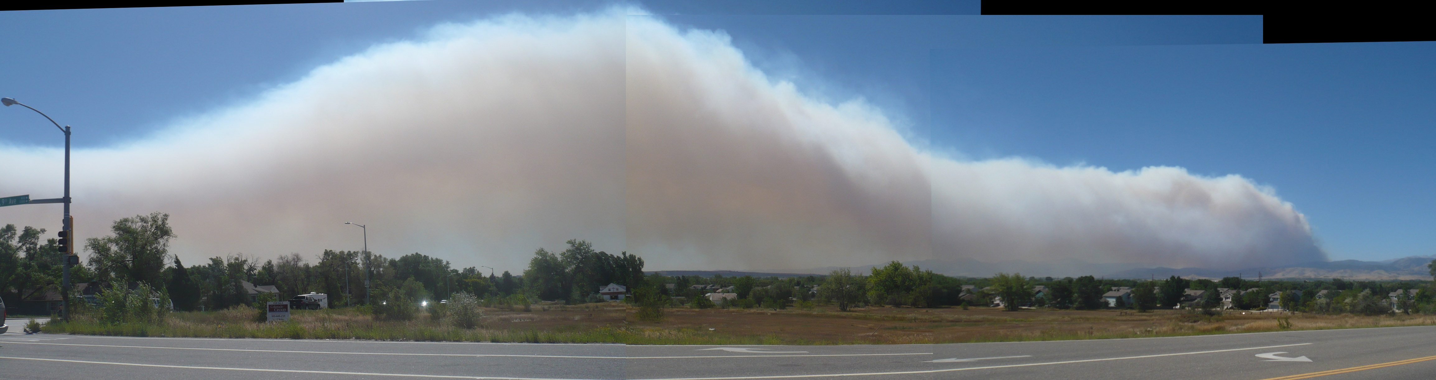 Smoke plume from the 4 Mile Canyon Fire taken around noon on Monday Sept 6 2010 looking southwest from Ninth and Hover in Longmont Co. The high winds that day generated a dramatic and unusual smoke plume. Those same winds fanned the fire allowing it to grow rapidly that day.